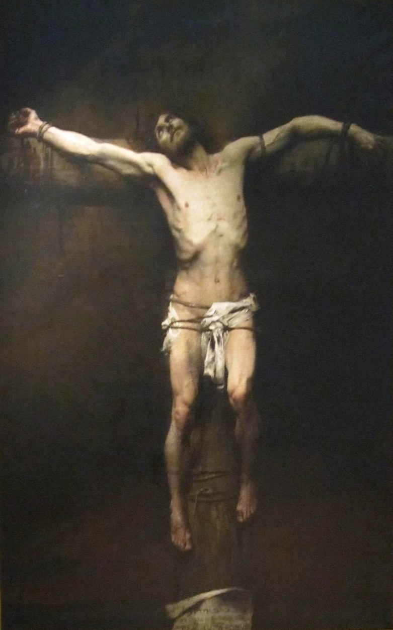 Christ on the Cross